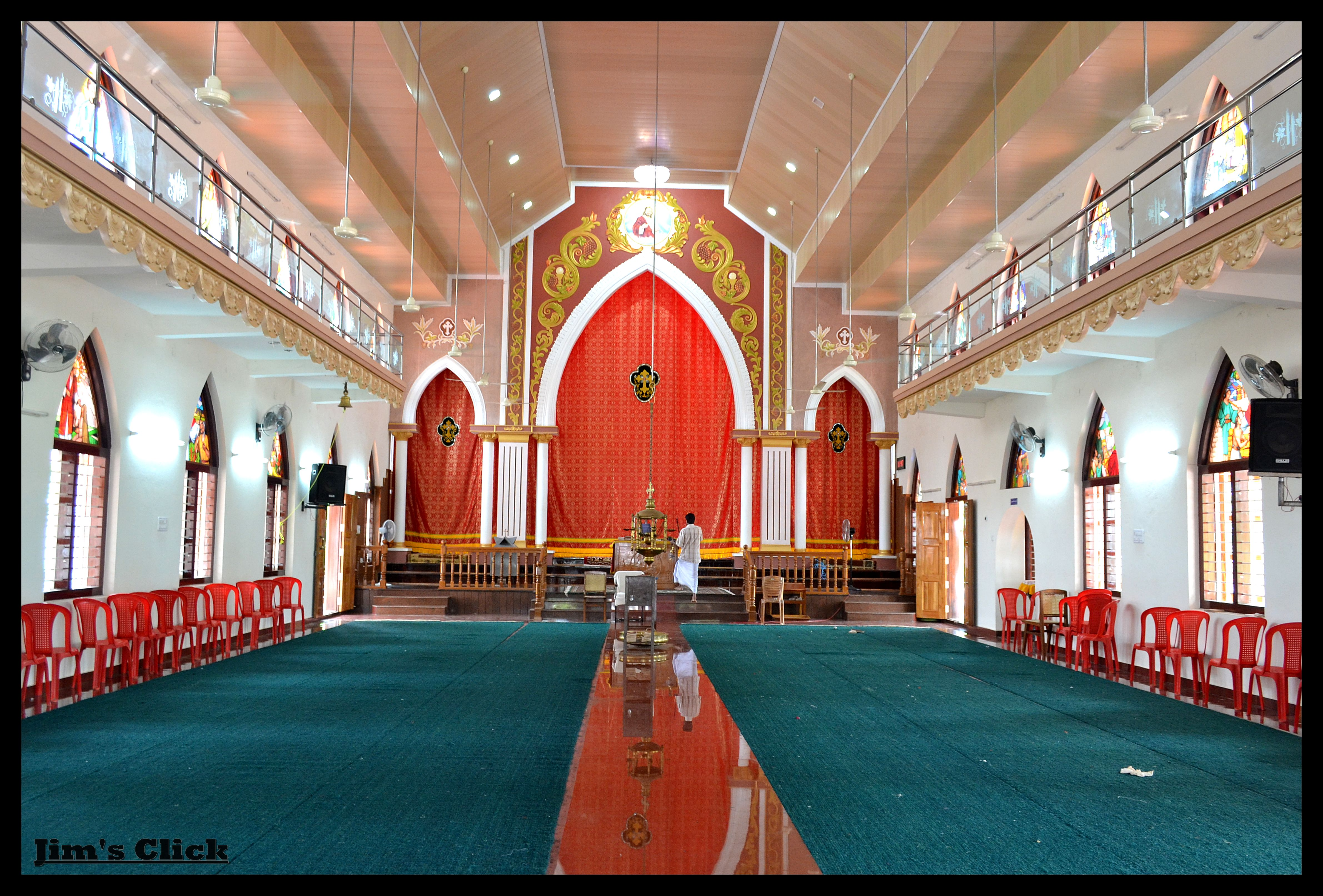 This pic has been taken after the renovation in July 2011.